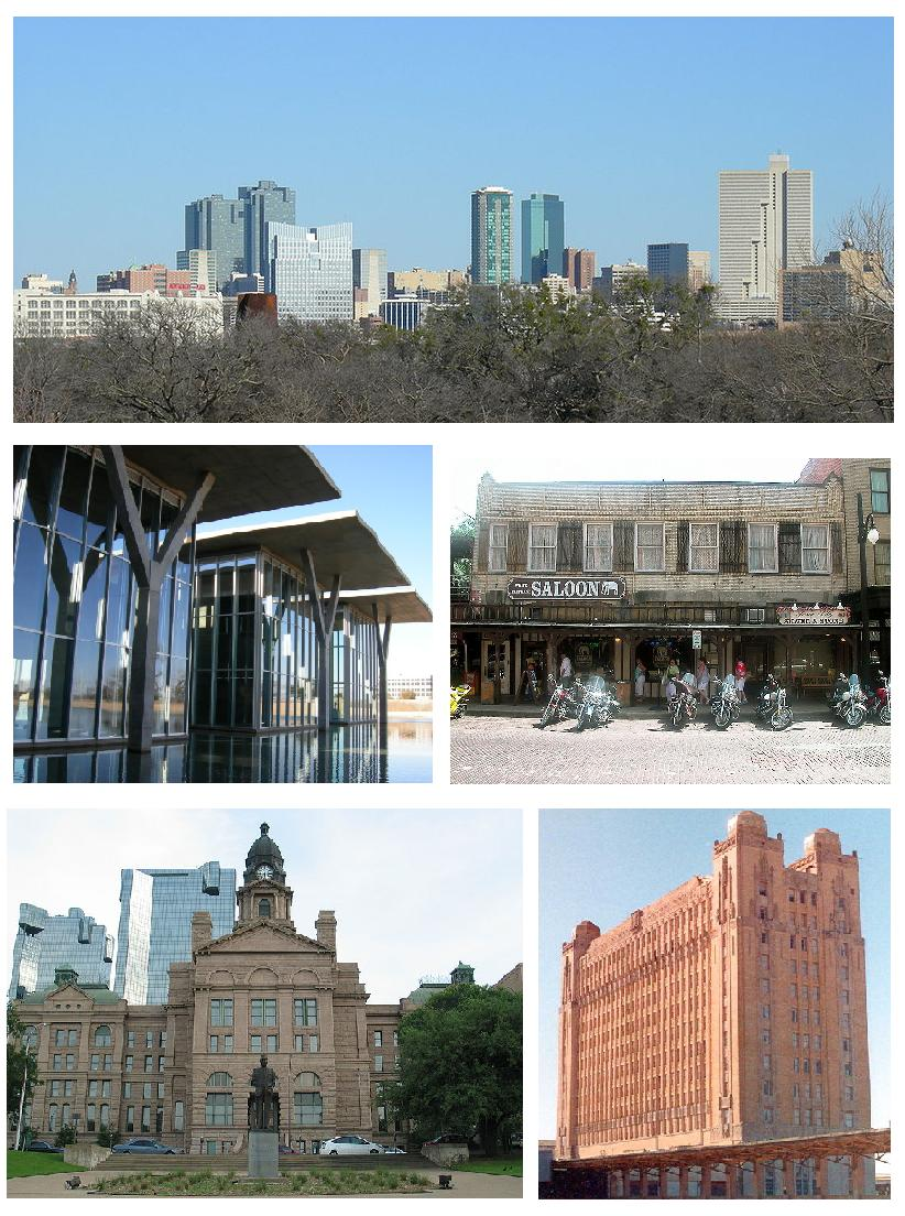 It is a collage image of the City of Fort Worth, Texas, USA